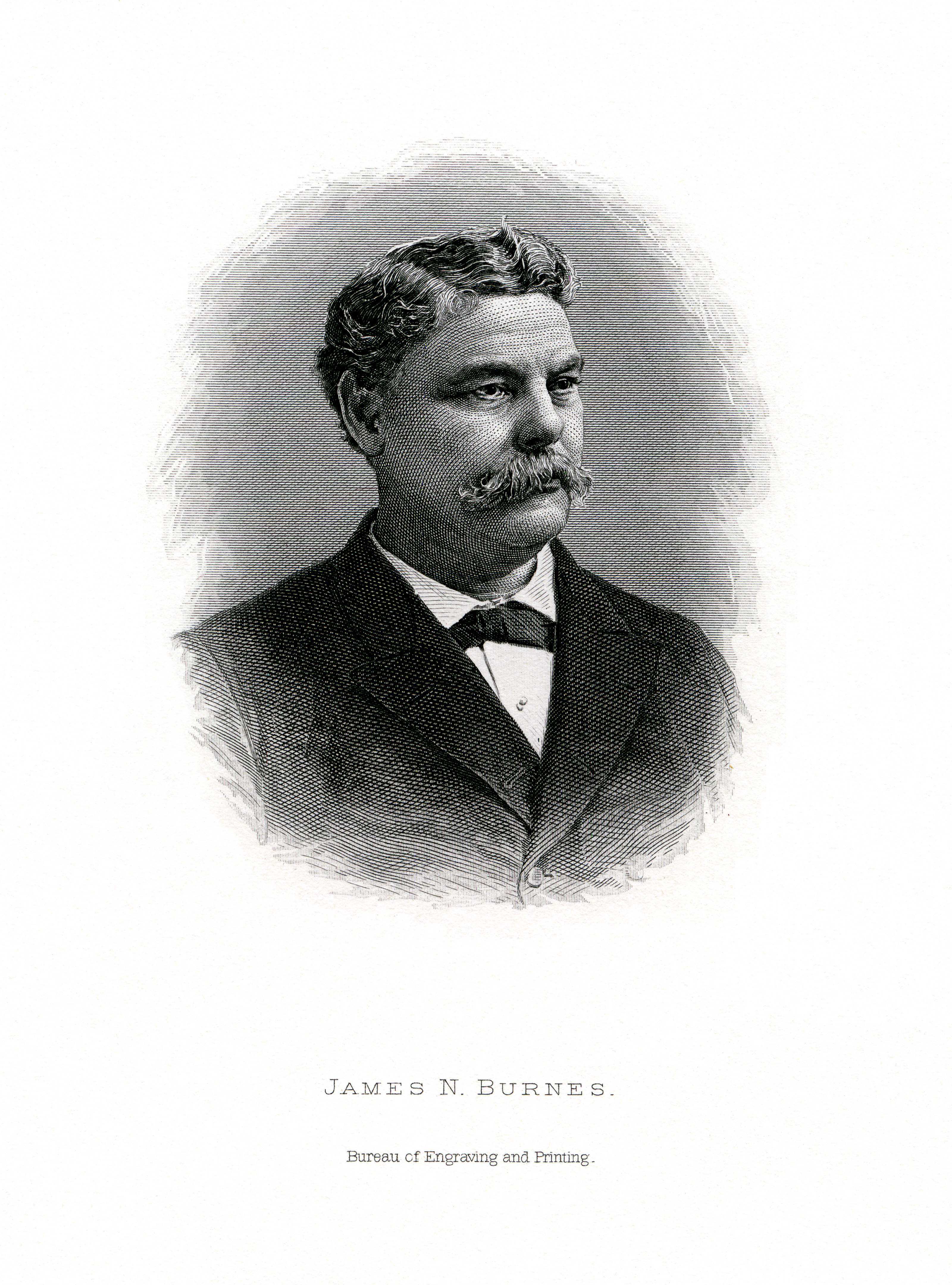 Bureau of Engraving and Printing engraved portrait of James N. Burnes.